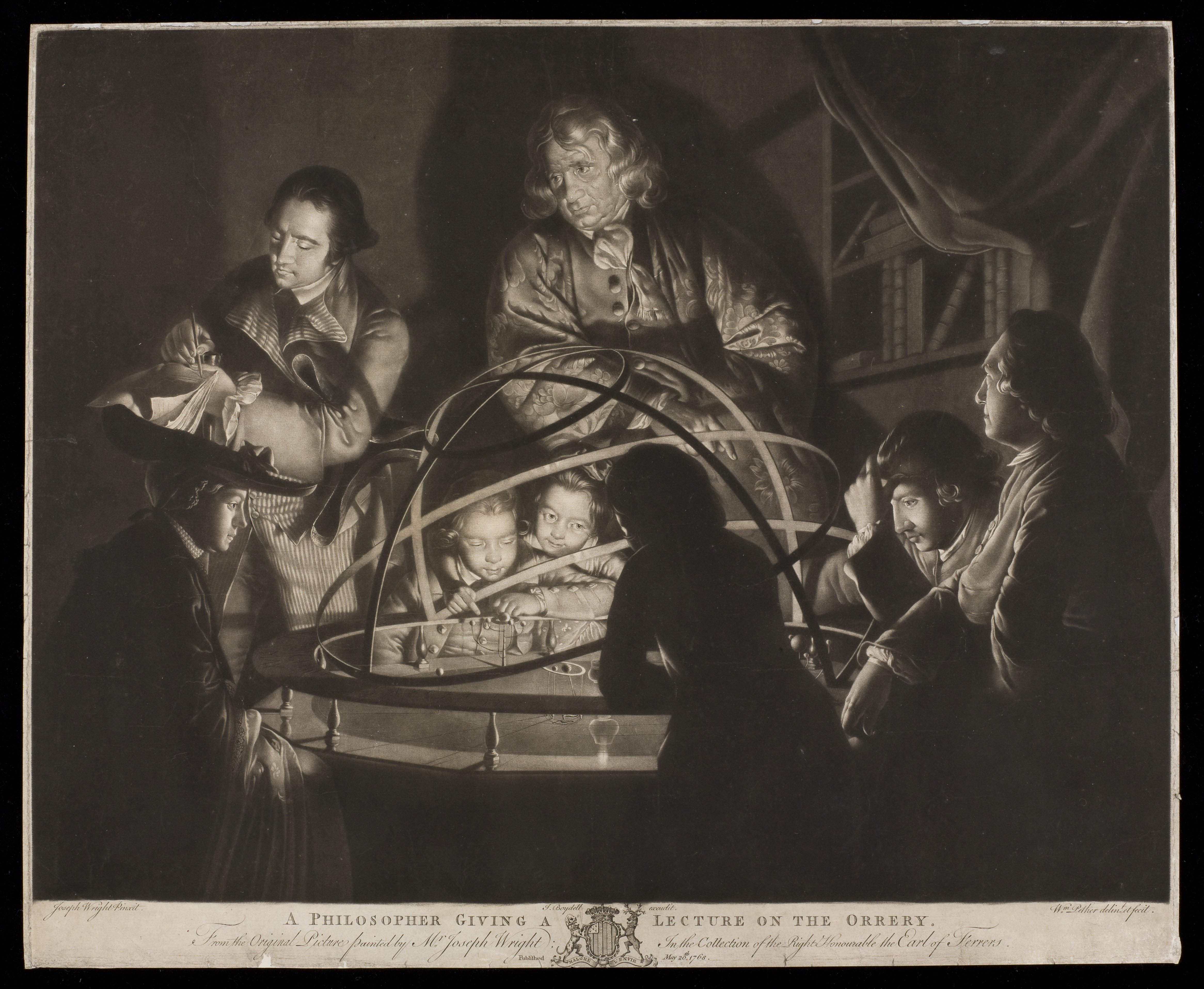 A philosopher giving a lecture on the orrery. Iconographic Collections Keywords: Joseph Wright; William Pether